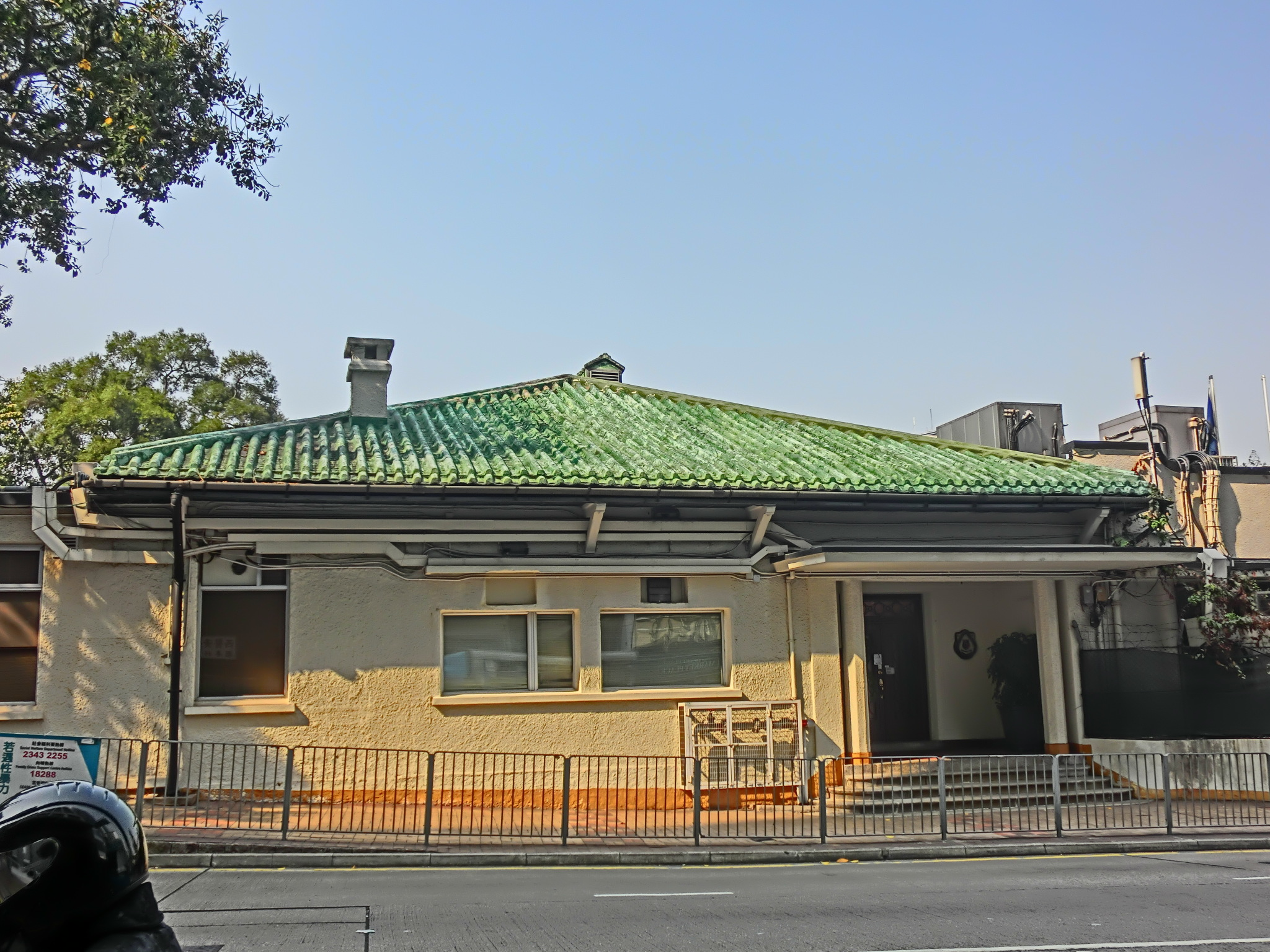 九龍zh:柯士甸道 Austin Road, Jordan, Kowloon, Hong Kong